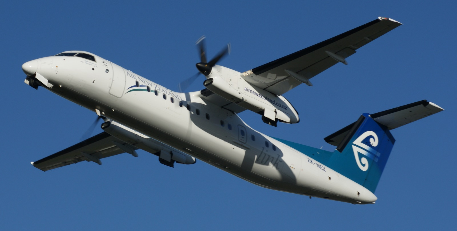 Wellington Airport